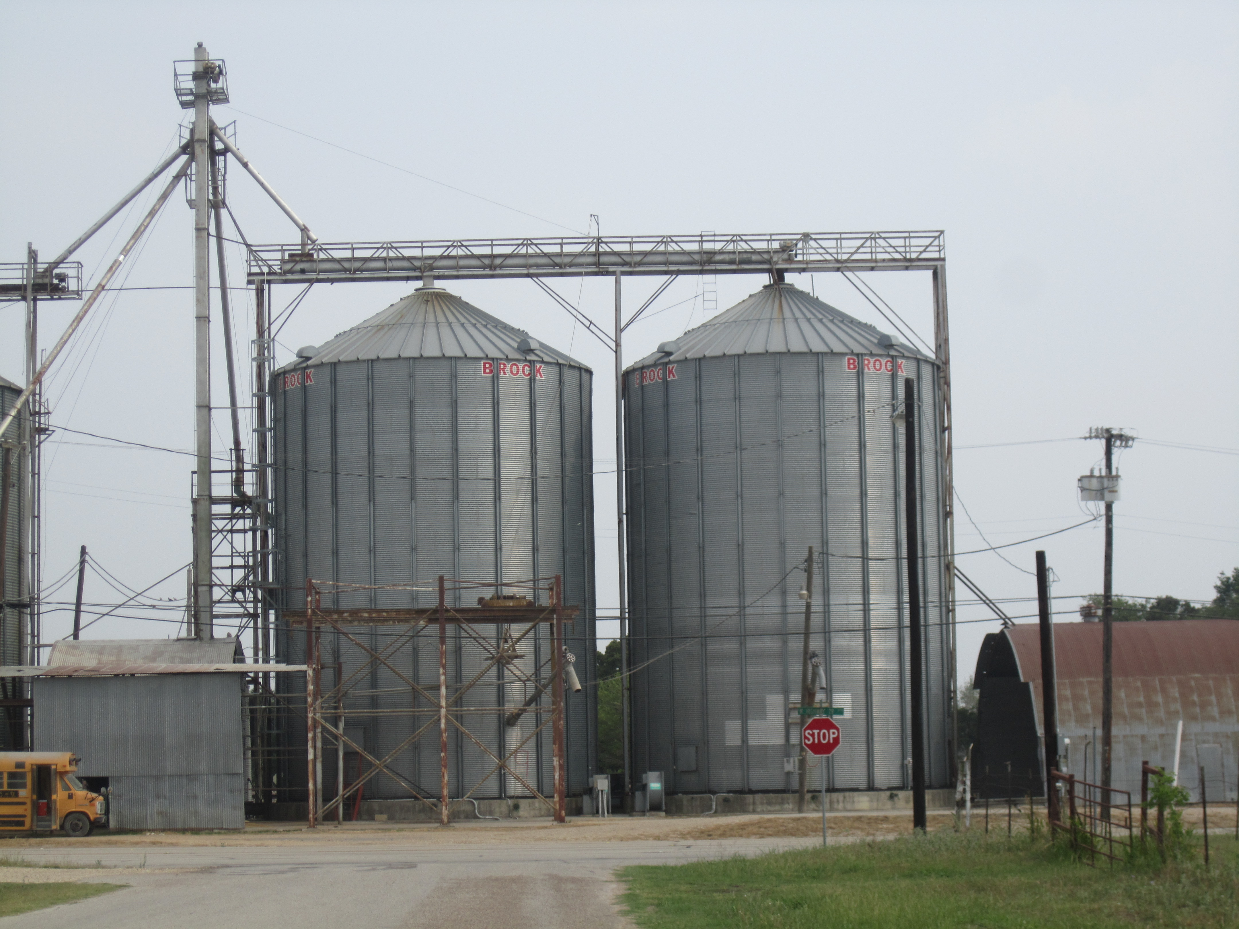 I took photo with Canon camera in Thorndale, TX.